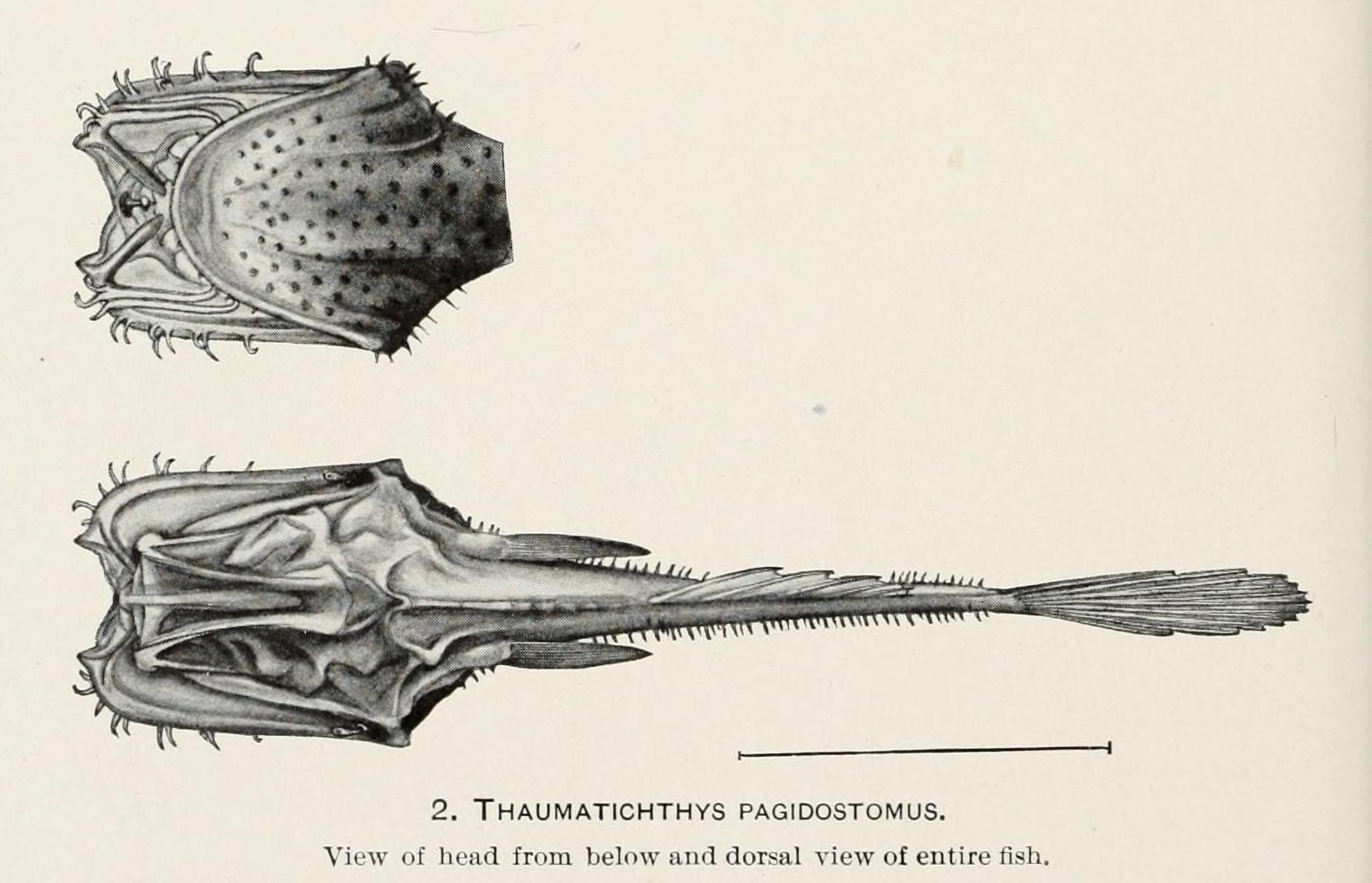 Thaumatichthys pagidostomus, ventral (above) and dorsal (below) view